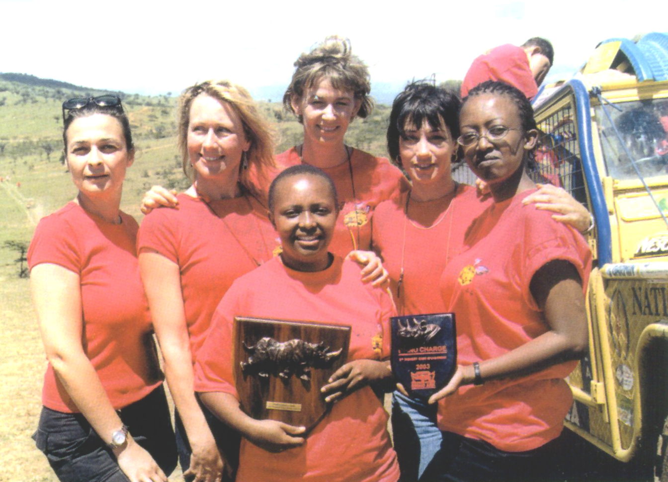 Rhino Charge 2003 ladies team